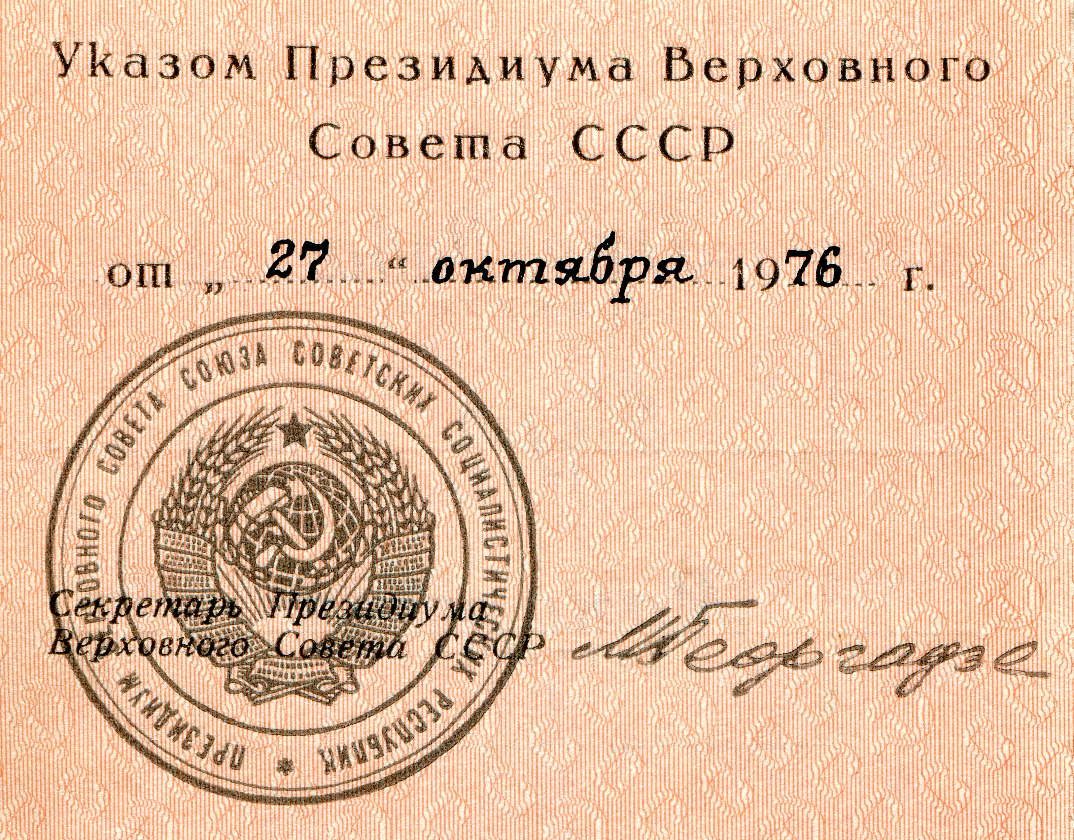 Presidium of the Supreme Soviet. Seal, signature of the secretary.